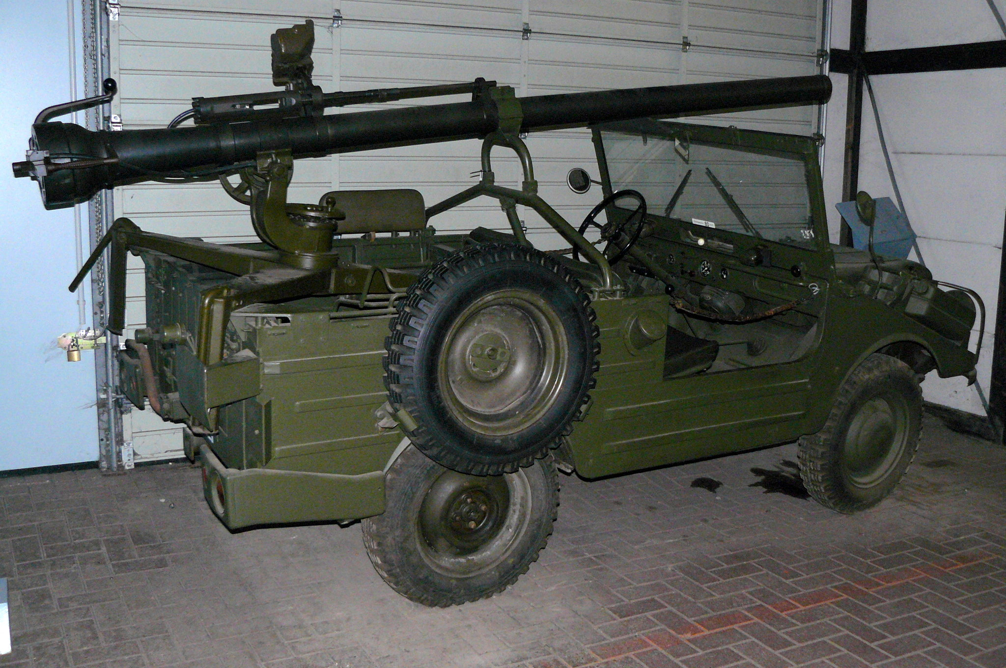 DKW Munga, 0,25 t with M40 recoilless rifle